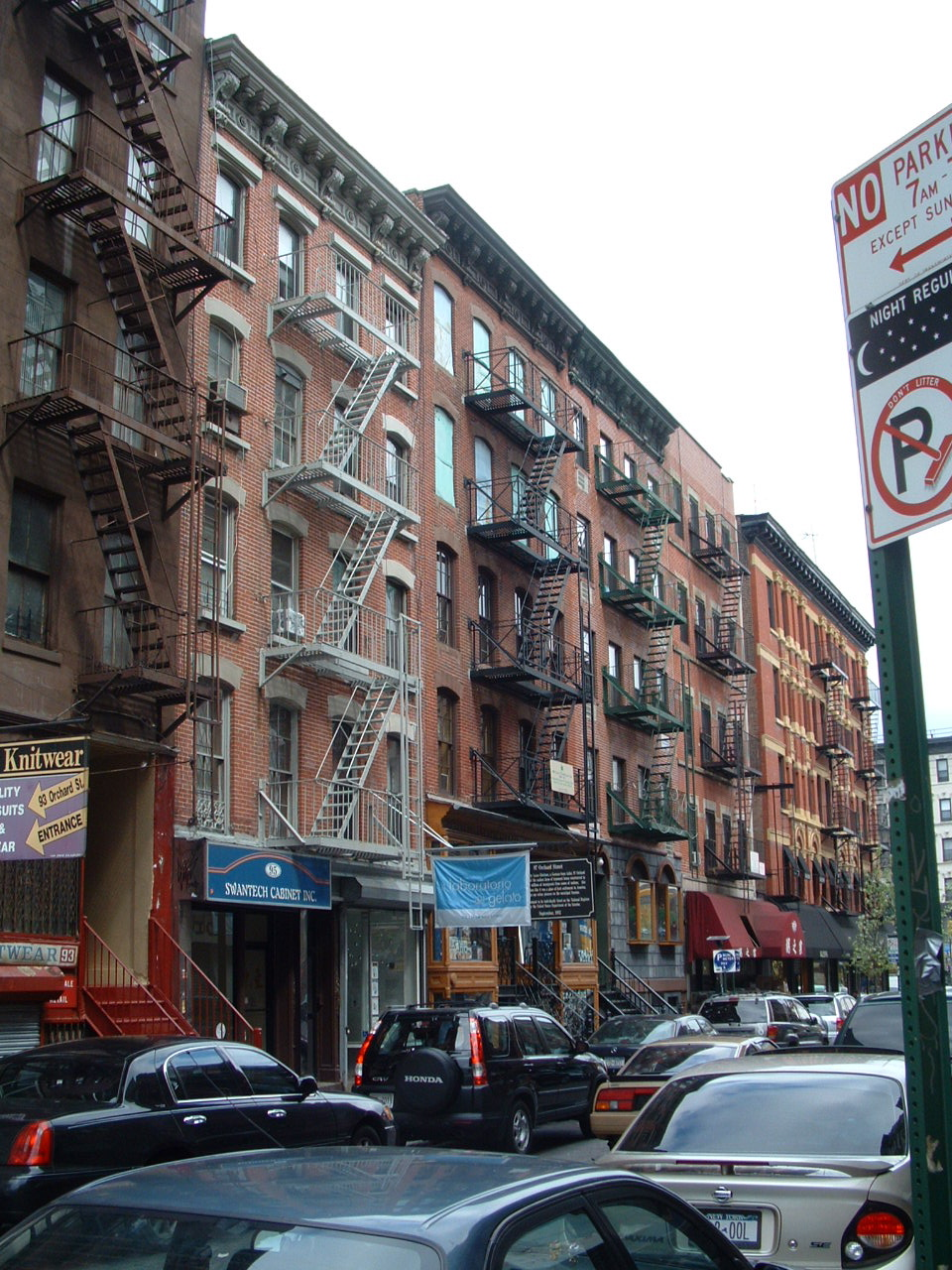 Orchard Street on the Lower East Side of Manhattan, New York.